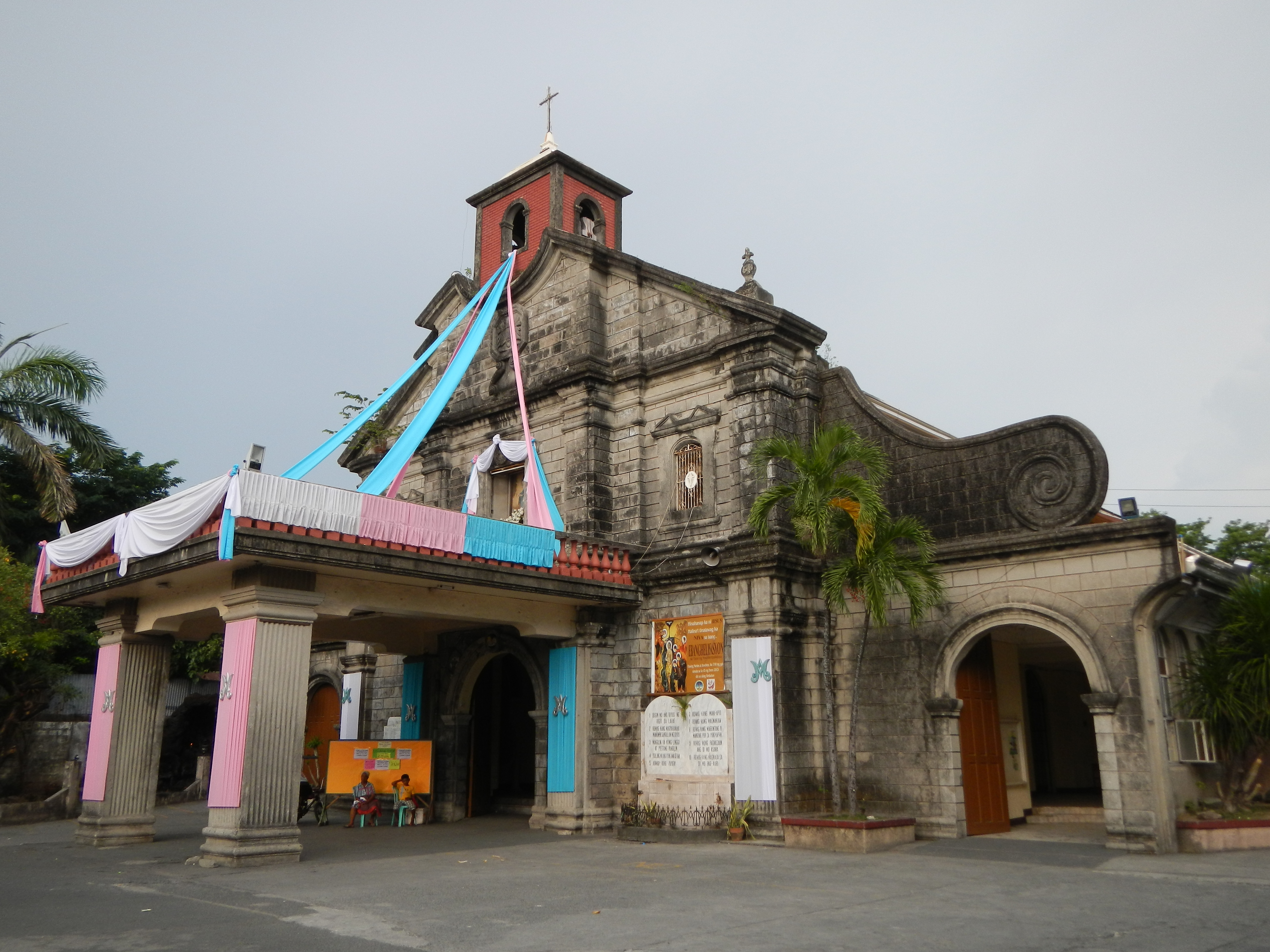 1845 Nuestra Señora Virgen del Santissimo Rosario, Reina de Caracol[1] or "Parish of the Most Holy Rosary" or "The Most Holy Rosary Parish" was conscerated on May 1, 2005 (El Pueblo Amante de Maria) (Our Lady of the Most Holy Rosary, Queen of the Caracol) also called "La Reina de Caracol" or "Mahal na Birhen ng Santo Rosaryo" is the patroness of Rosario "Salinas", Cavite,[2]Philippines. The Blessed Virgin Mary is depicted as Our Lady of the Most Holy Rosary.[3] ---Parish Priest - Fr. Gilberto Delima Urubio October 22, 1845 - Scout Torillo St., Poblacion, 4106 Rosario, CaviteWebsite -- It belongs to the Roman Catholic Diocese of ImusVicariate of The Holy Cross, Vicar Forane: Rev Fr. Calixto C. Lumandas, Parish Priest and Vicarial Representative: Rev Fr. Gilberto D. Urubio ---------[N.B. Photography of Rosario, Cavite[ 30% cloudy and 70% sunny weather using my Nikon AW 100 waterproof shockproof camera. From Bulacan at 9:35 a.m., I took photo of the Baliuag Transit Original station, and at 11:38 a.m., the 5th Avenue LRT Station[4]; then I arrived at Rosario, Cavite and captured Noveleta Battle bridge at 2:08 pm, and then the Salinas Town or Rosario, Cavite at 2:33 pm and finished photography at 7:04 pm, and arrived at Bulacan at 11:30 pm after 4+ hours of travel by bus, and started uploading via slow internet at 11:40 pm - I hereby certify that these raw, original and unedited photos are exclusive for Commons and Wikipedia never uploaded in any Internet or any site, and for the public domain without any condition.]